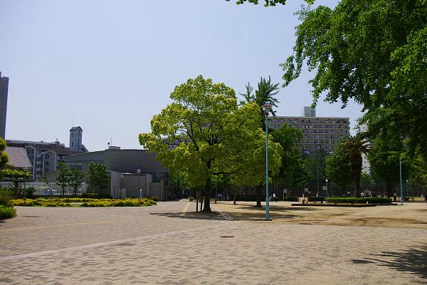 Shimo-Fukushima park, Osaka, Japan